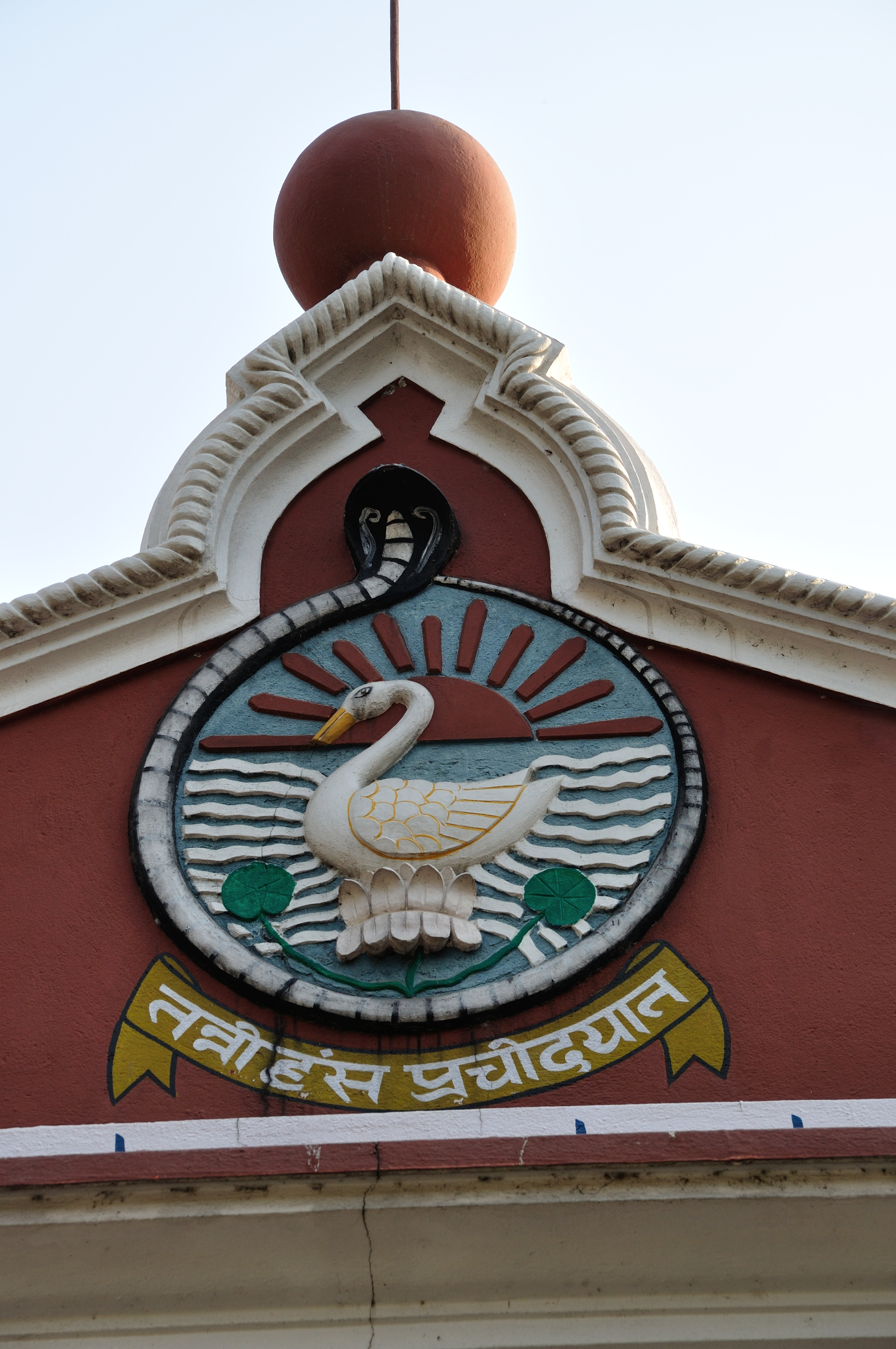 Photographed in West Bengal.